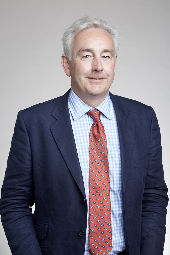 (Robin) Angus Silver FRS is Professor of Neuroscience and a Wellcome Trust Principal Research Fellow at University College London. Attribution: The Royal Society